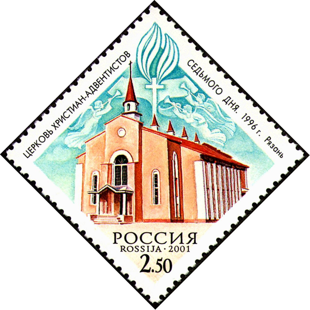 Religious buildings of Russia.Christianity, the Seventh-day Adventist Church.The Adventist Church in Ryazan. 1996.The stamp of Russia, 2.50 rubles, 12 July 2001, PTC Marka Catalogue No 692, Michel No 924, Scott No 6647. Coated paper. Offset printing. Multicoloured. Perforation: comb 11½. Size of the stamp: 37×37 mm. Print run: 350,000.